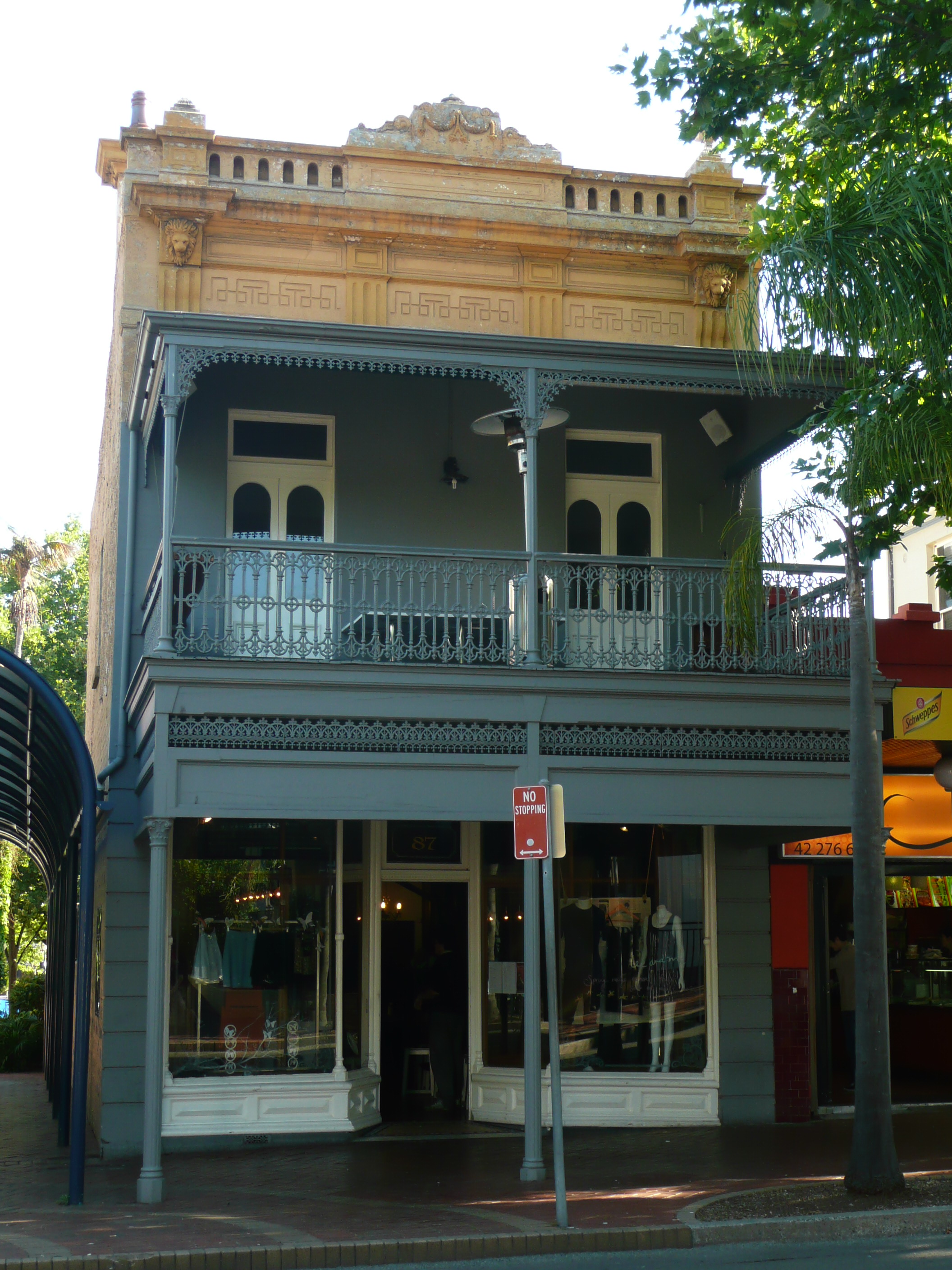 shop, wollomgomg, australia